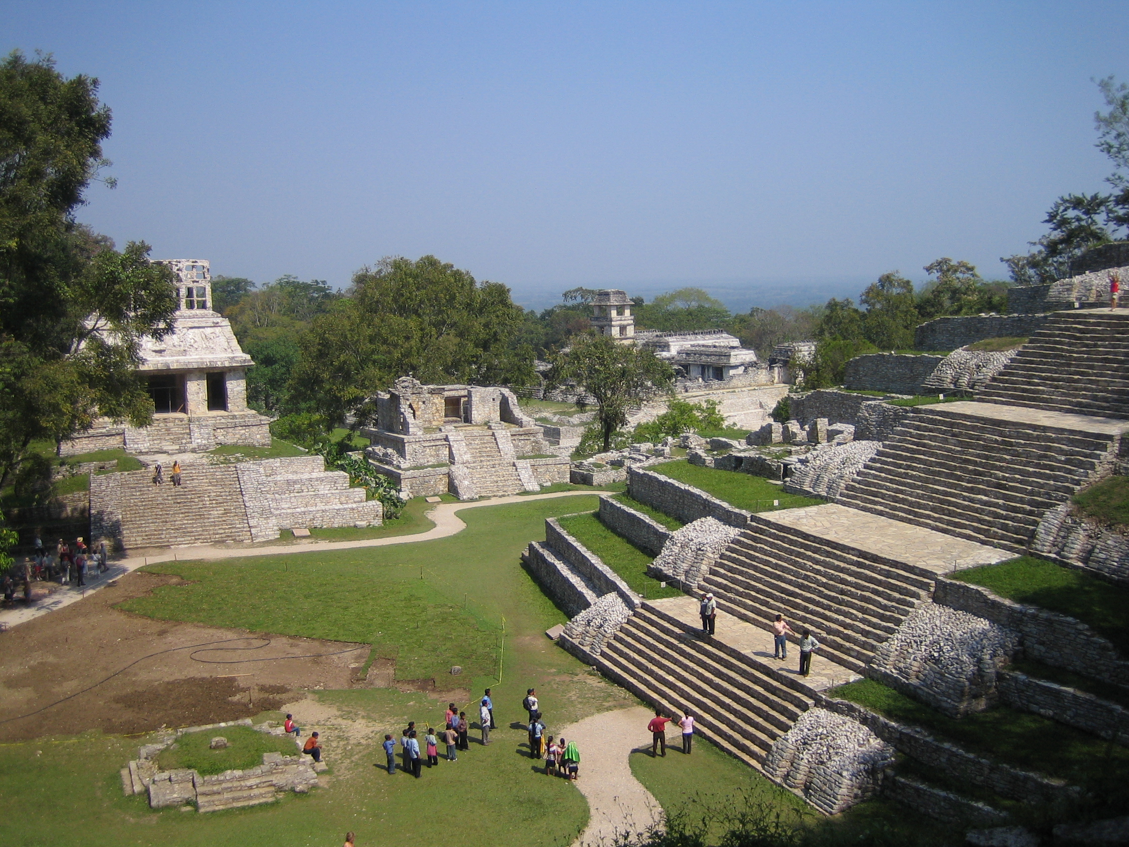 Palenque palace in Mexico